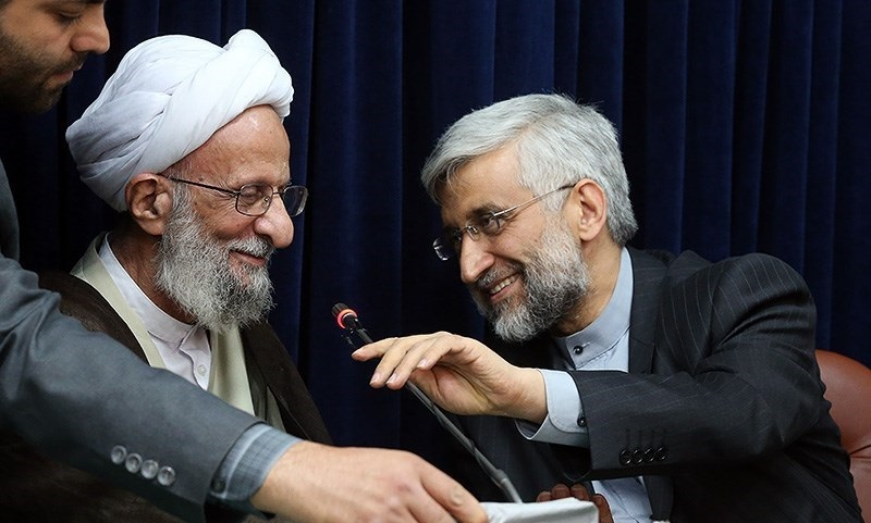 Iran Presidential candidate Saeed Jalili meets with Ayatollah Mohammad-Taqi Mesbah-Yazdi